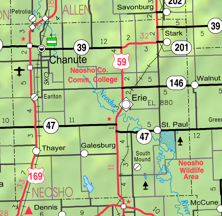 This map of Neosho County, Kansas, USA, is copied at a resolution of 300 pixels/inch from the original PDF file.